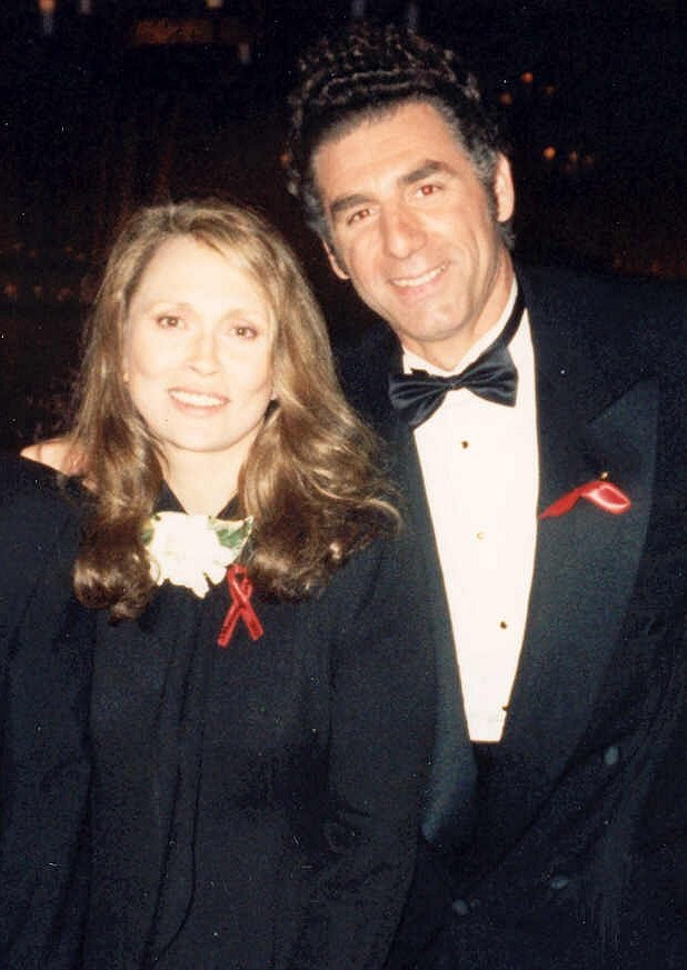 Faye Dunaway and Michael Richards at the 47th Emmy Awards Governor's Ball